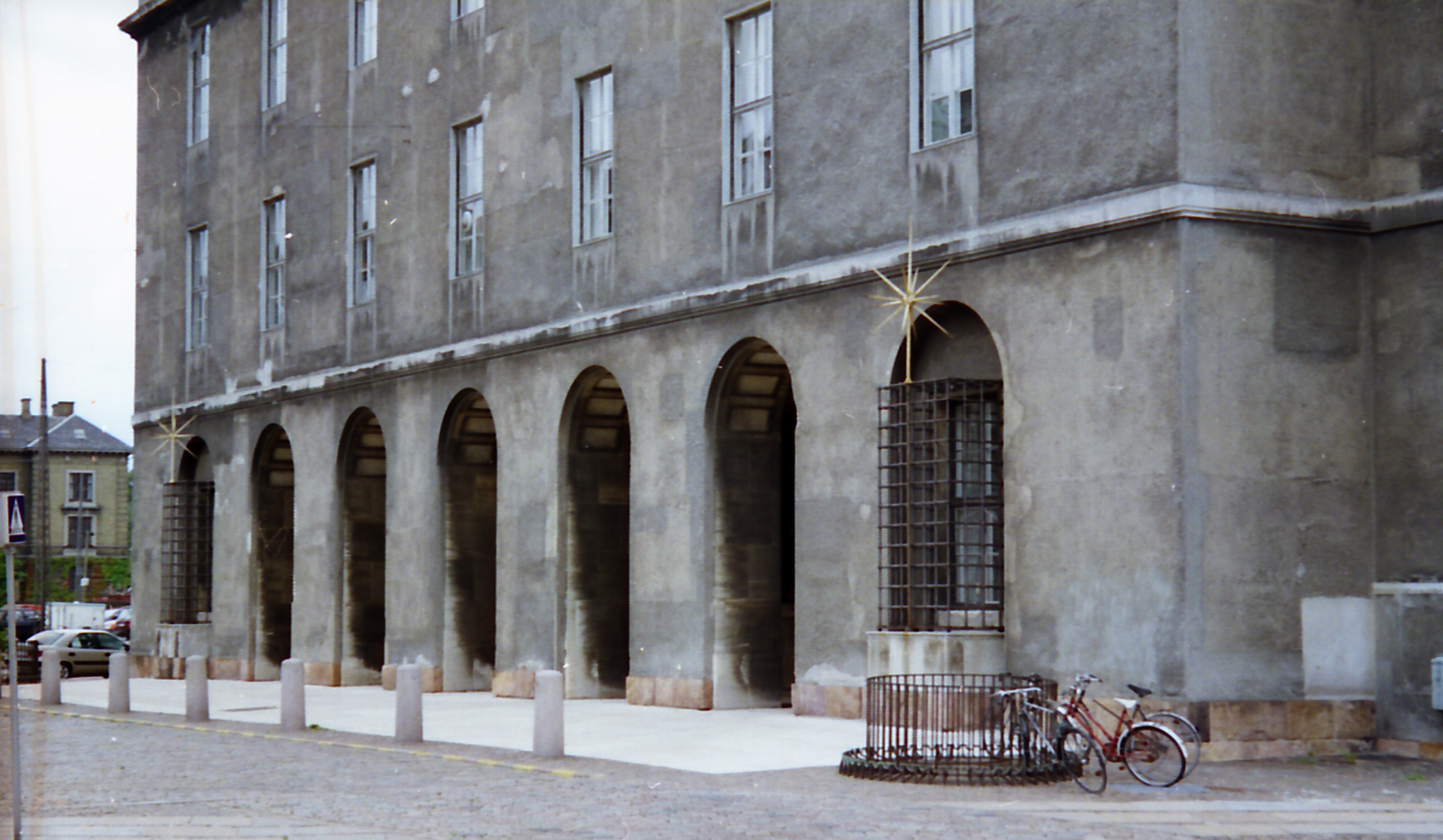 This photo shows the "Olsenbanden"-Film Police Station